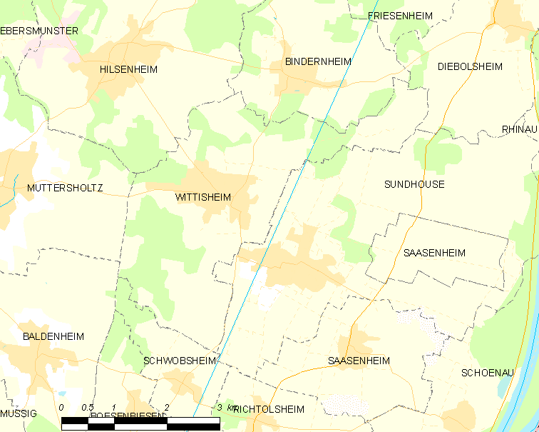 Map of French municipality